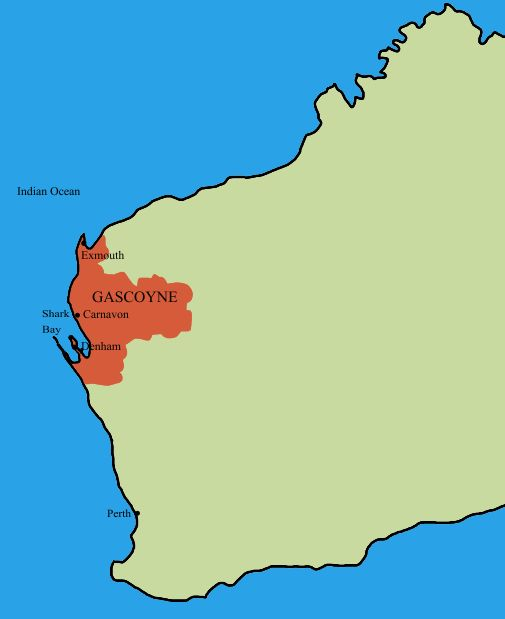 Western Australian region of Gascoyne, I made the image